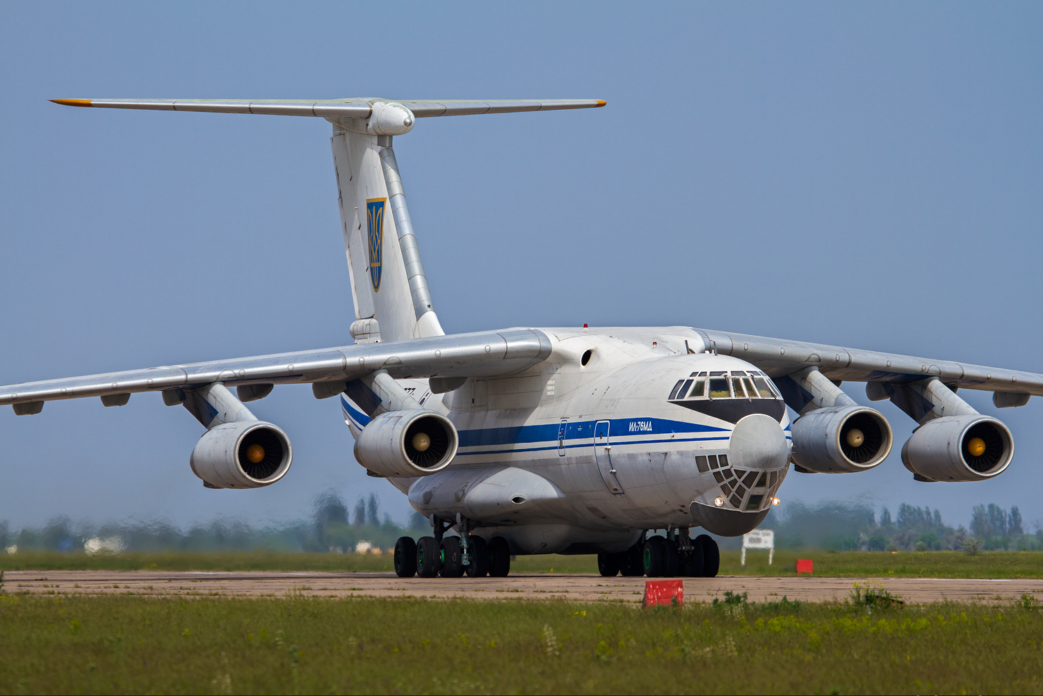 Ukrainian Air Force Ilyushin Il-76MD (76777) seen at Kulbakino. This aircraft was shotdown on 14 June 2014